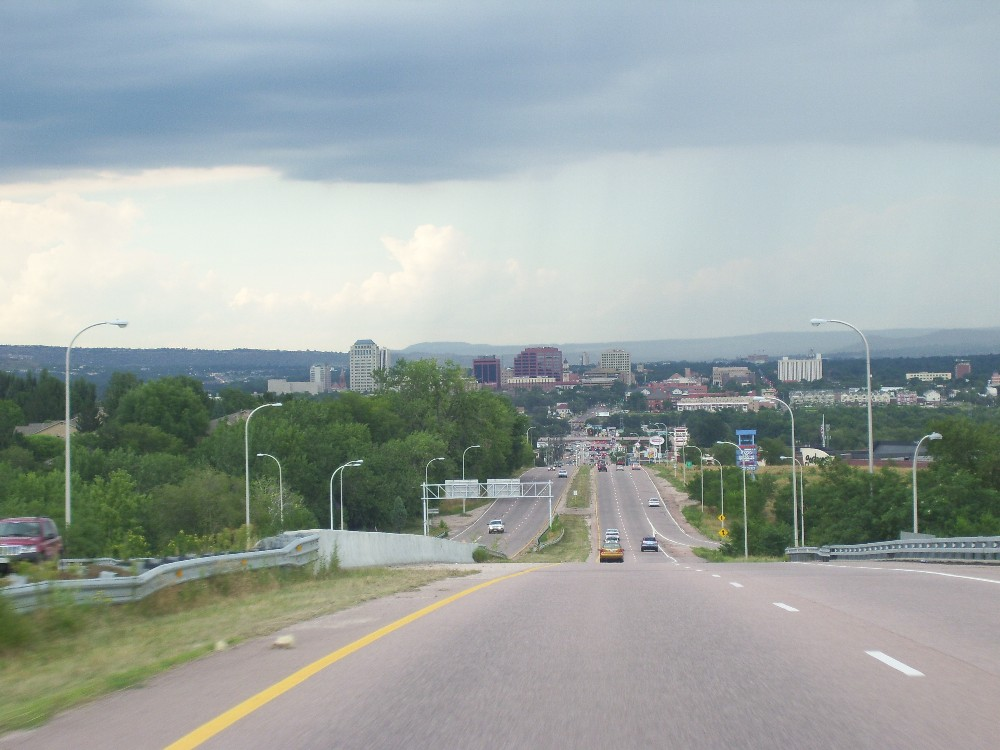 Colorado Springs skyline, as seen from Nevada Avenue (Colorado State Highway 115) looking north, near Lake Avenue exit on 2007/08/16. From